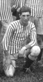 Image of Feliciano Perducca cropped from a Club Atletico Temperley team photo taken in 1925